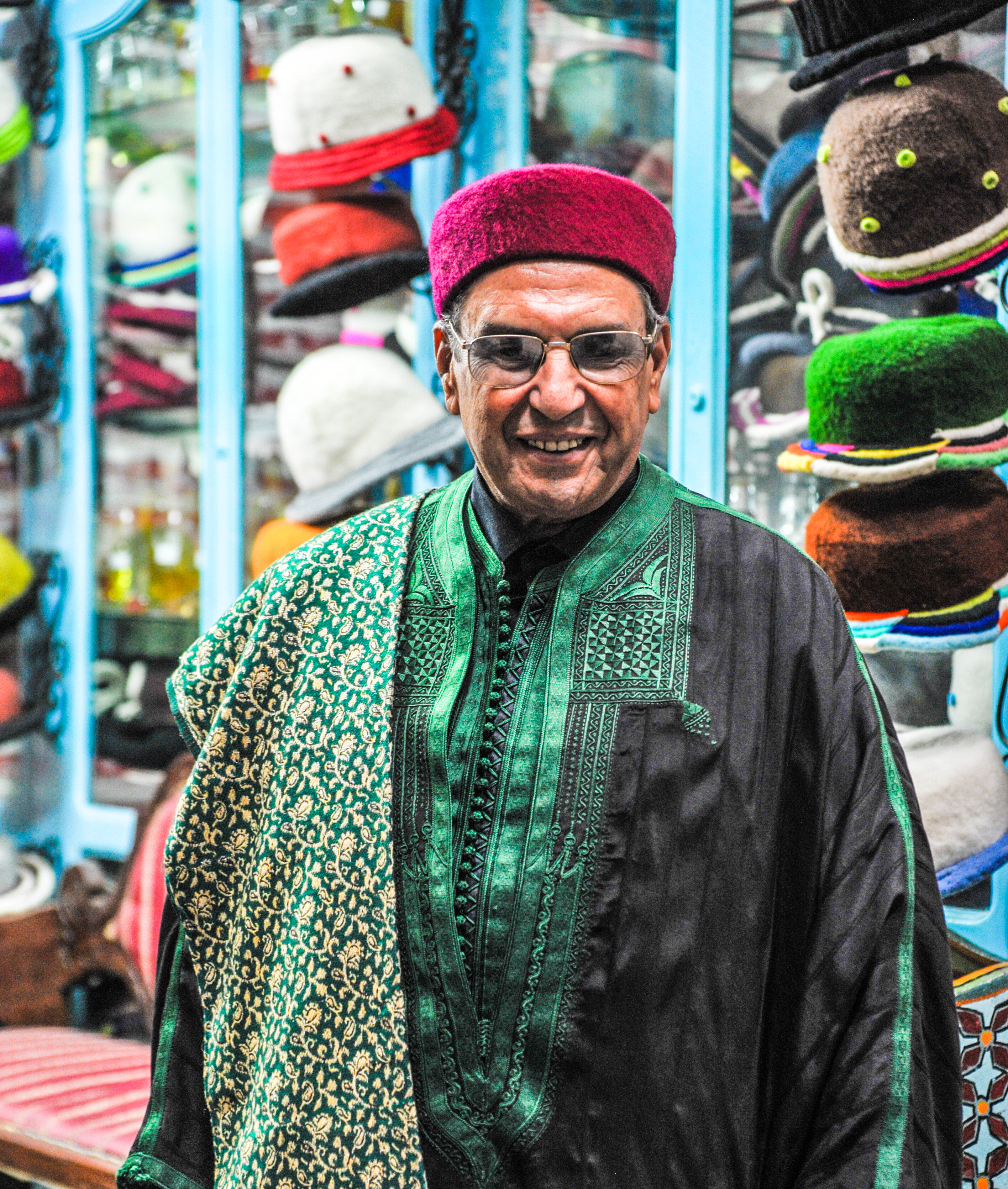 This is an image of Cultural Fashion or Adornment from Tunisia